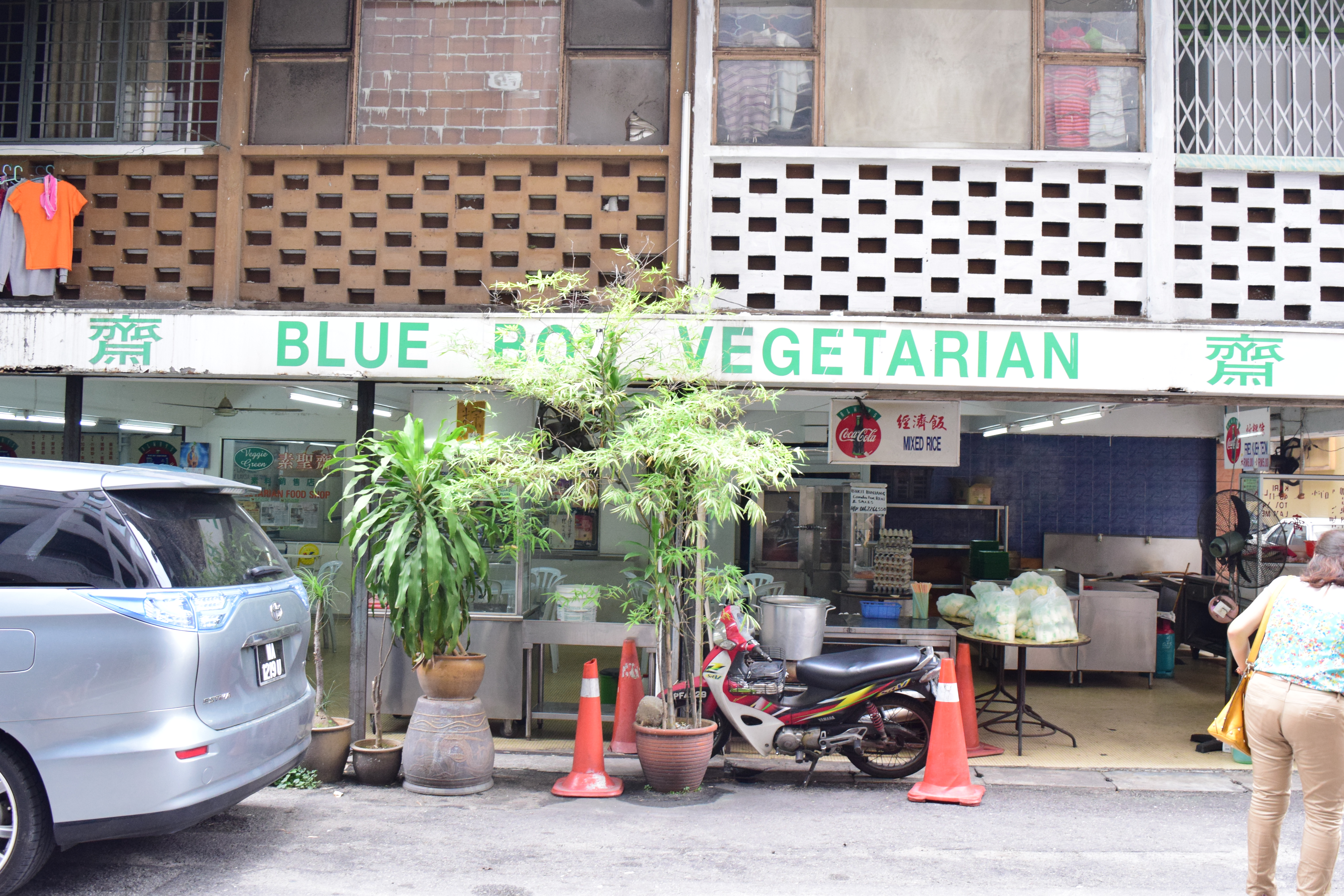 Blue Boy Vegetarian Restaurant located at Ground Floor